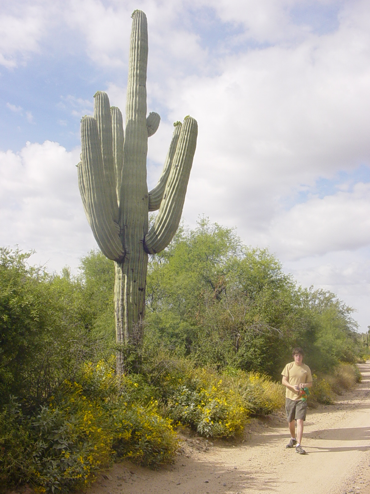 Saguaro Cactus located in AZ. The man in the photo is 5'11″.